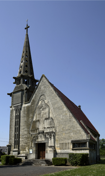 L'église Saint-Martin; Monthenault (Aisne); Picardie, Aisne, France; ref: PM_014286_F_Montenault_Aisne; 1932; 1932; Photographer: Paul M.R. Maeyaert; © Paul M.R. Maeyaert; ; Cultural heritage; Cultural heritage/Modernism; Europe/France/Monthenault (Aisne)